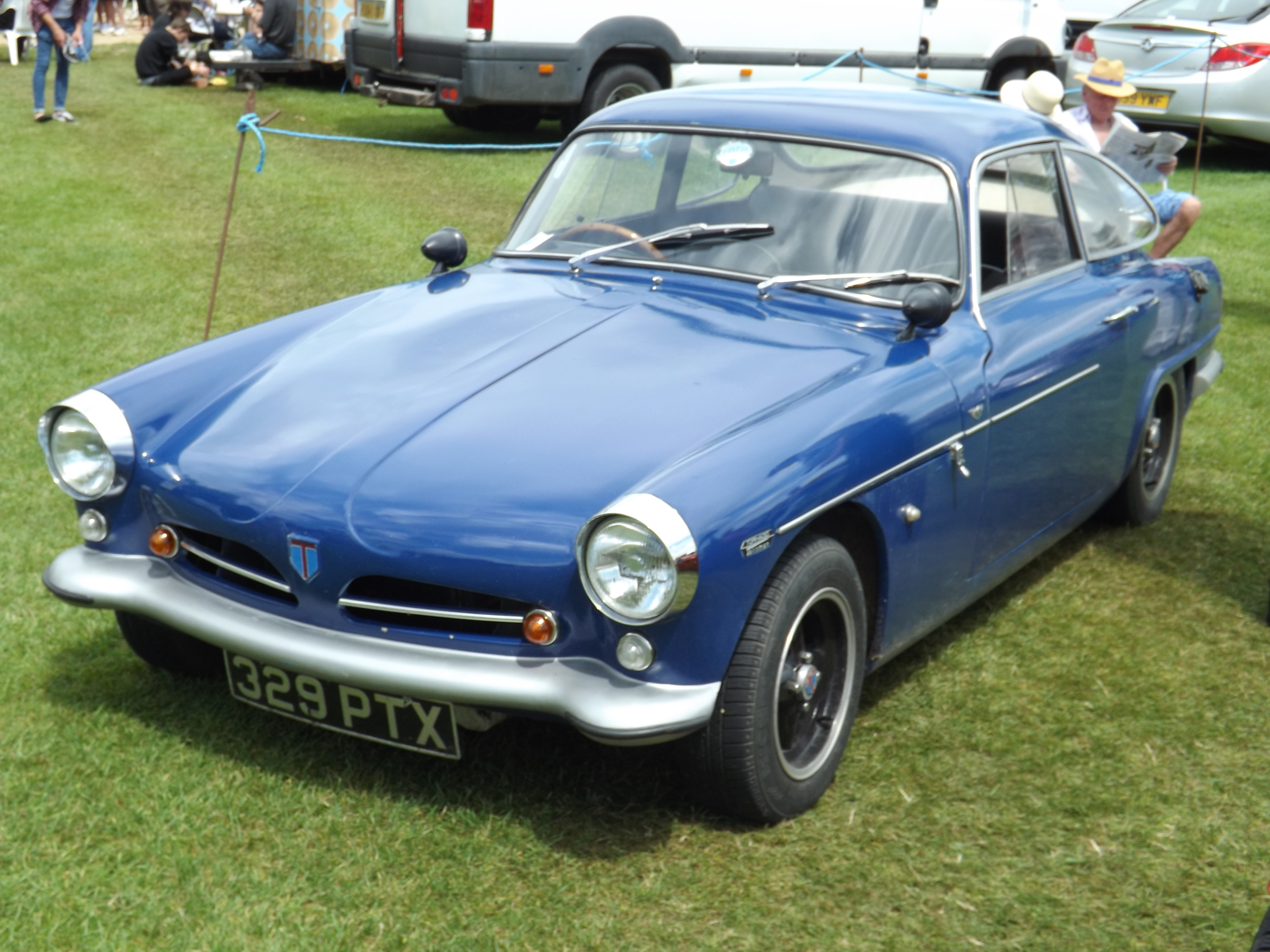 Spotted at "Classics at the Castle", Sherborne, Dorset on 20th July 2014